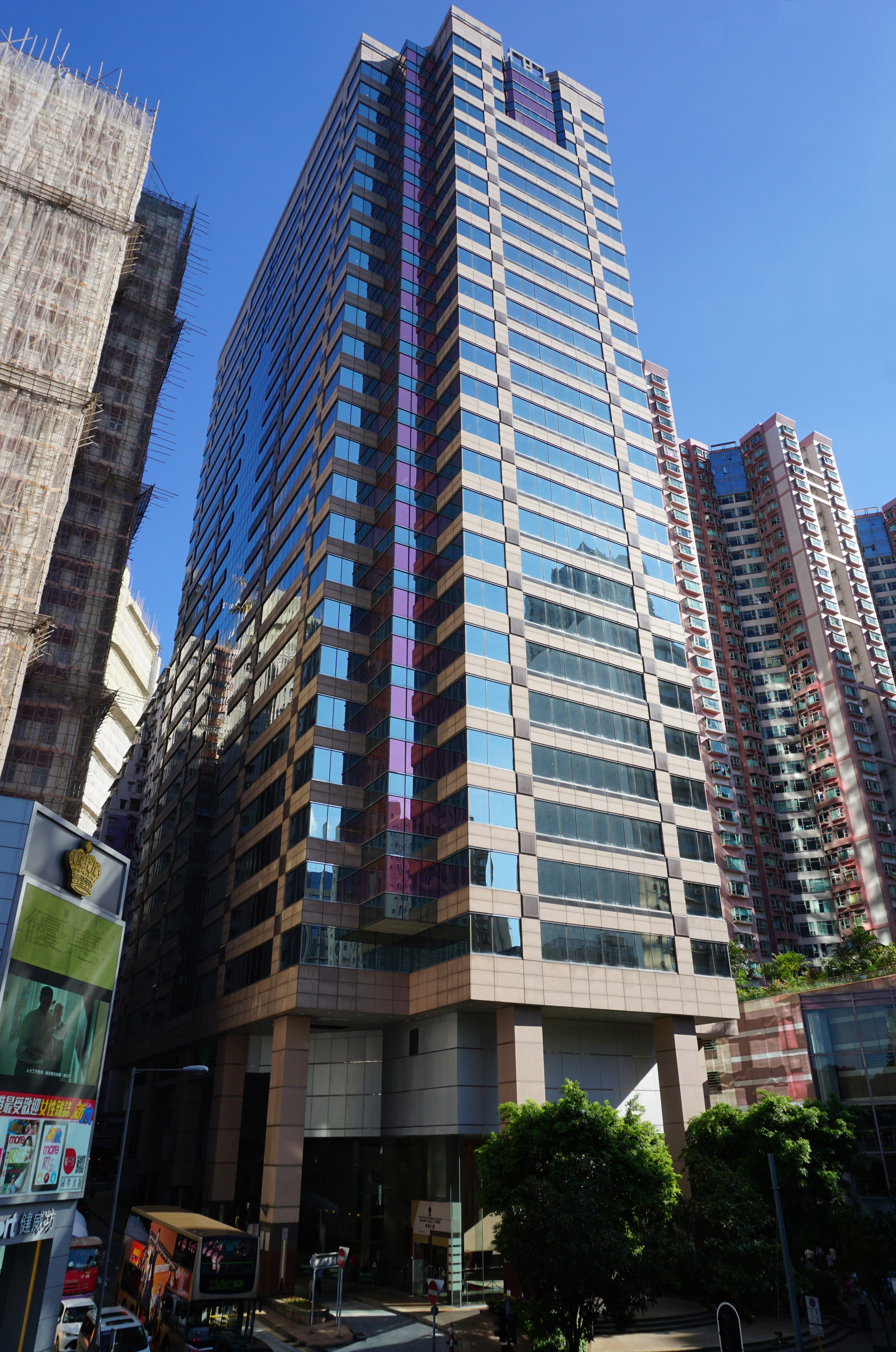 Island Place Tower in North Point, Hong Kong.